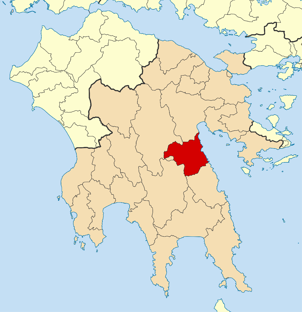 Locator map for Voria Kynouria municipality in Greek region Peloponnese (2011)